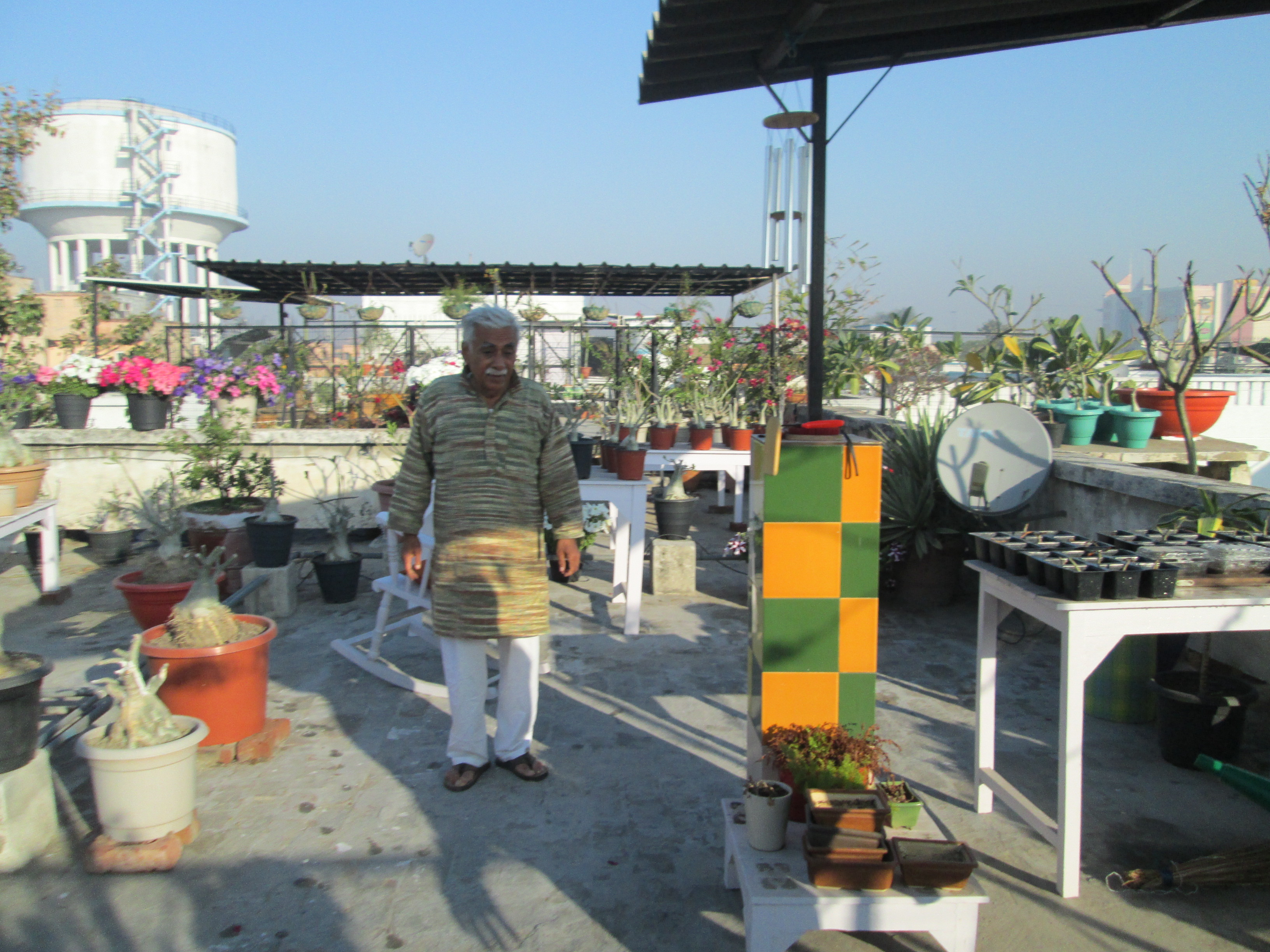 Sindhi writer Harish Vasvani in March 2013,couple of weeks before his death on April 2013.